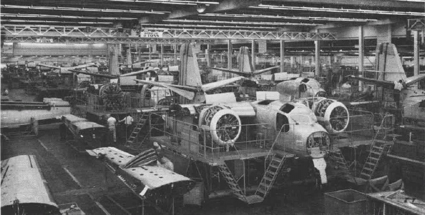 The Grumman S2F-1 (after 1962 S-2A) Tracker production line at Bethpage, New York (USA), in 1956.